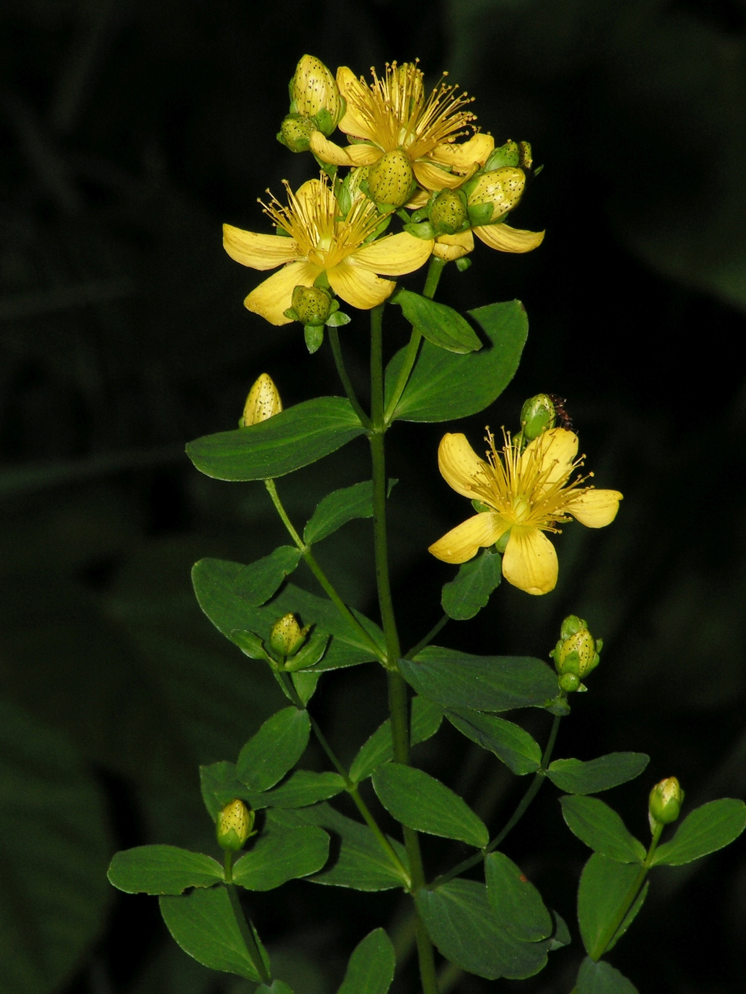 Flowers and flower buds of Perforate St John's-wort. Moscow region, Russia.